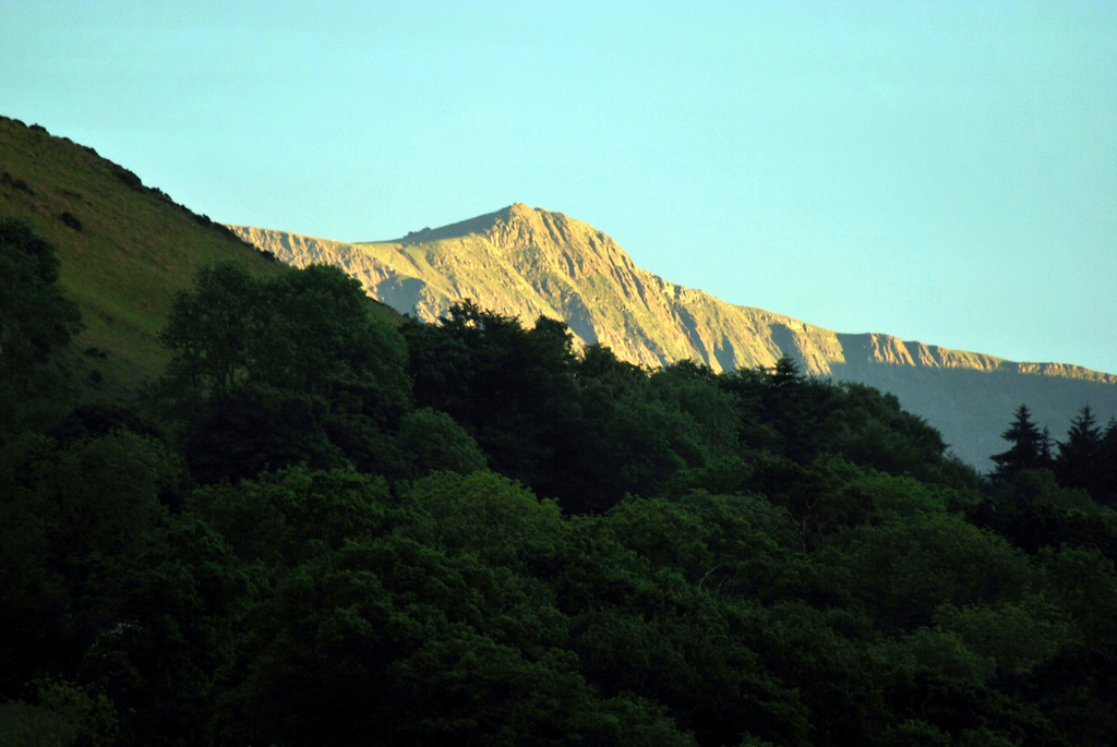 A view od Cader Idris from Llanfachreth